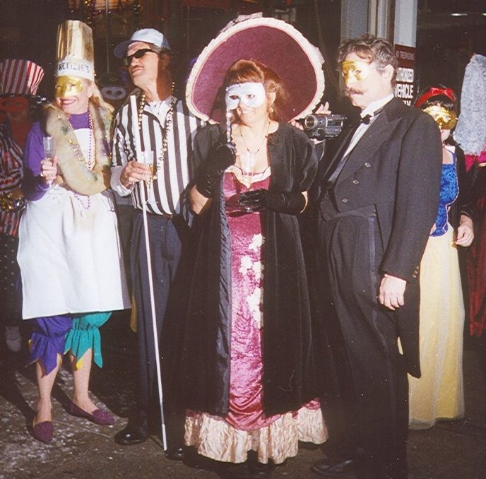 Carnival Costumers, 12th night, New Orleans, 2002. Photo by Infrogmation.